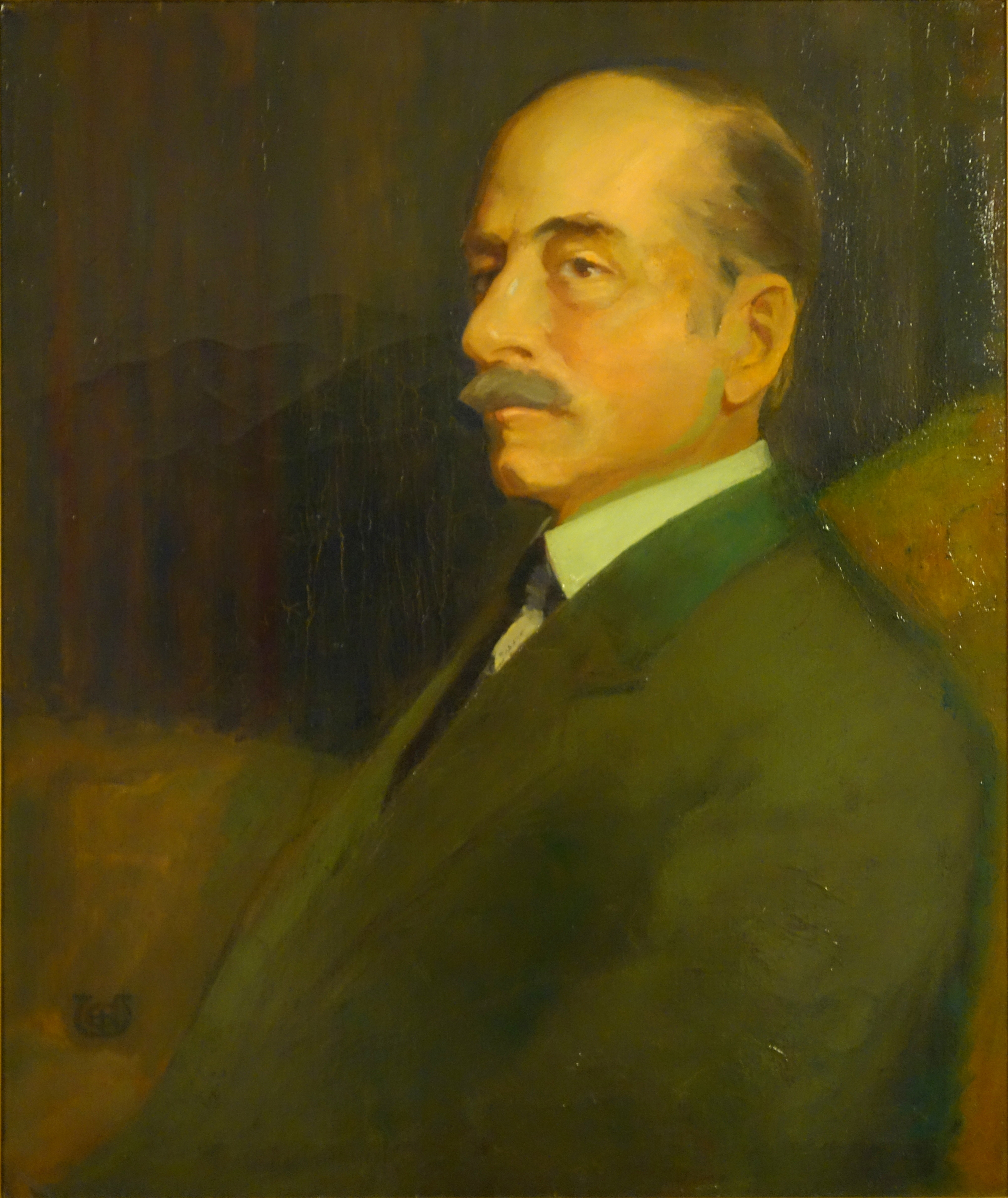 Portrait of John Bradley Winslow - Wisconsin Supreme Court, Madison, Wisconsin, USA. Artist unknown. This artwork is in the public domain because it was first published in the United States before 1923.